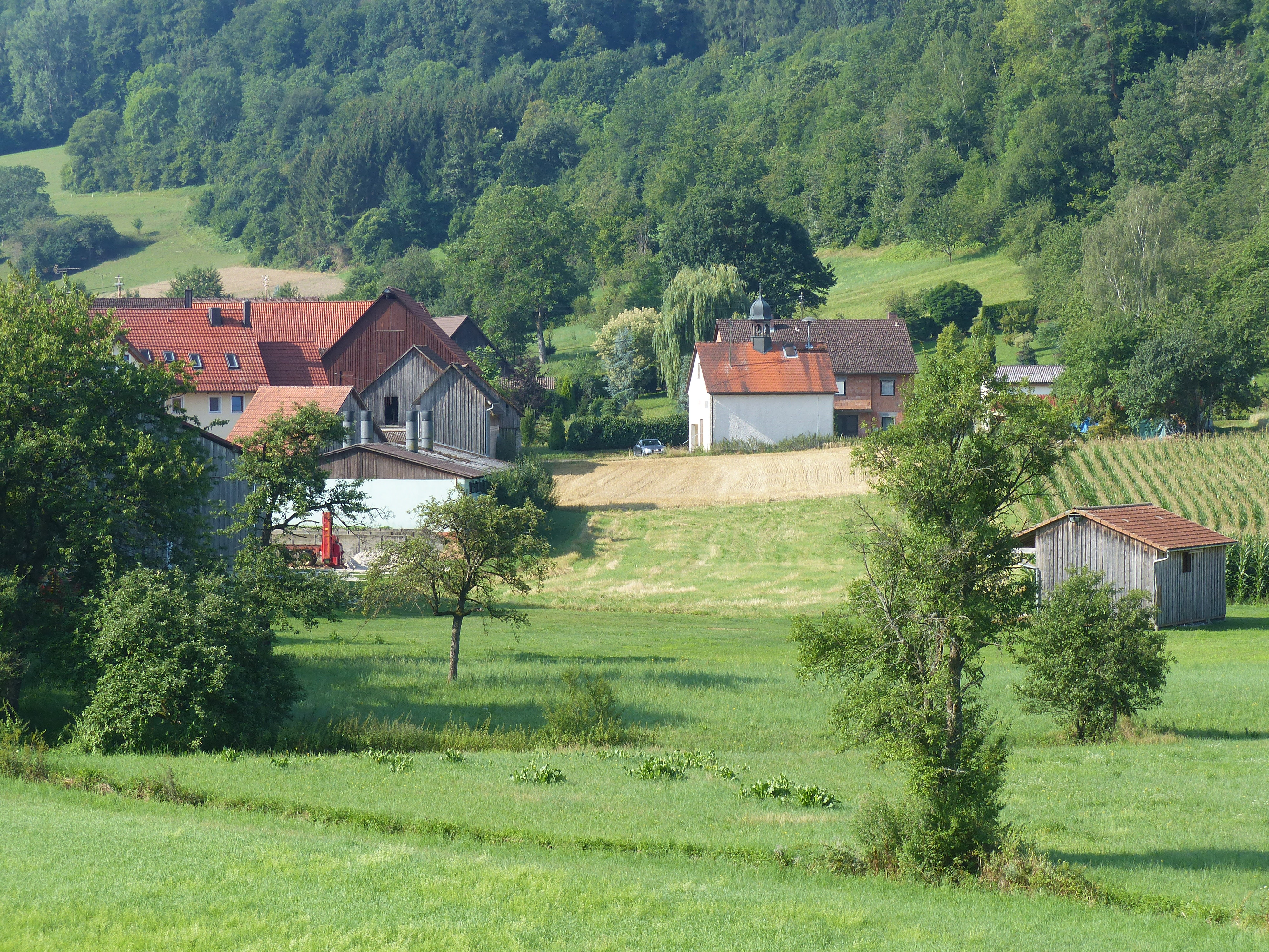 The village Oberzaunsbach, a district of the municipality of Pretzfeld.